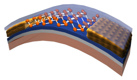 Illustration of the bottom-gated flexible BP transistor with hydrophobic dielectric encapsulation.